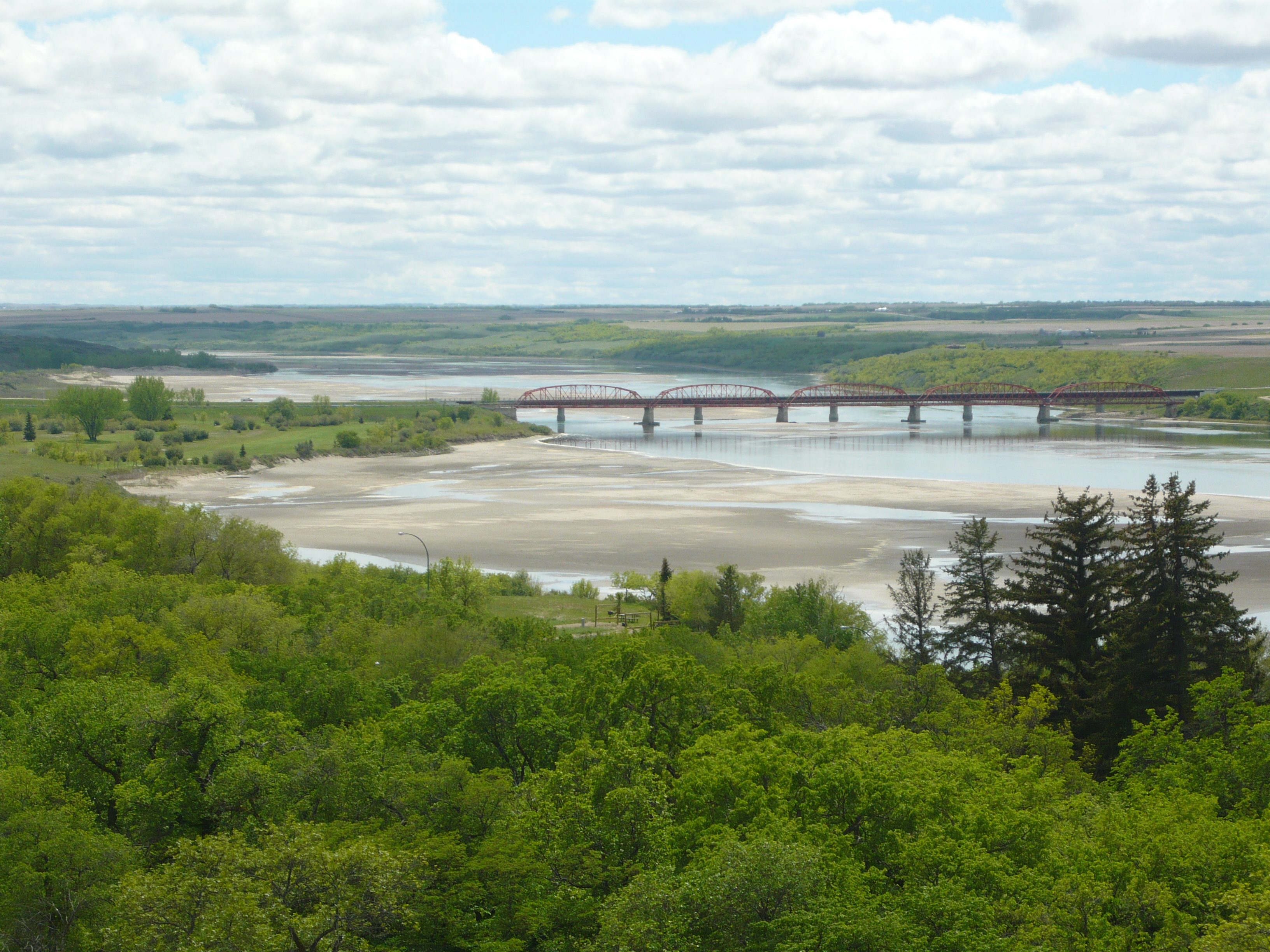 View of highway bridges (Highway 15) taken from the Skytrail Bridge at Outlook, Saskatchewan, Canada. The river is the South Saskatchewan River. Shown are a newer highway bridge (more distant) and an obsolete highway bridge (foreground), although they appear to be superimposed on each other in this photo.